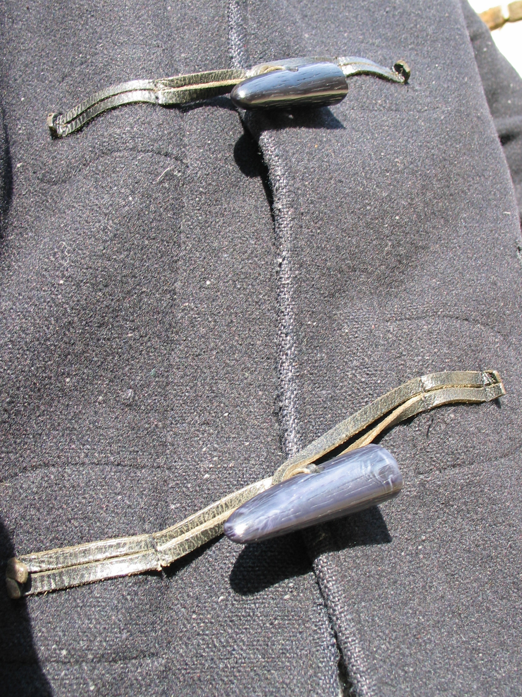 Duffle-coat front fastenings